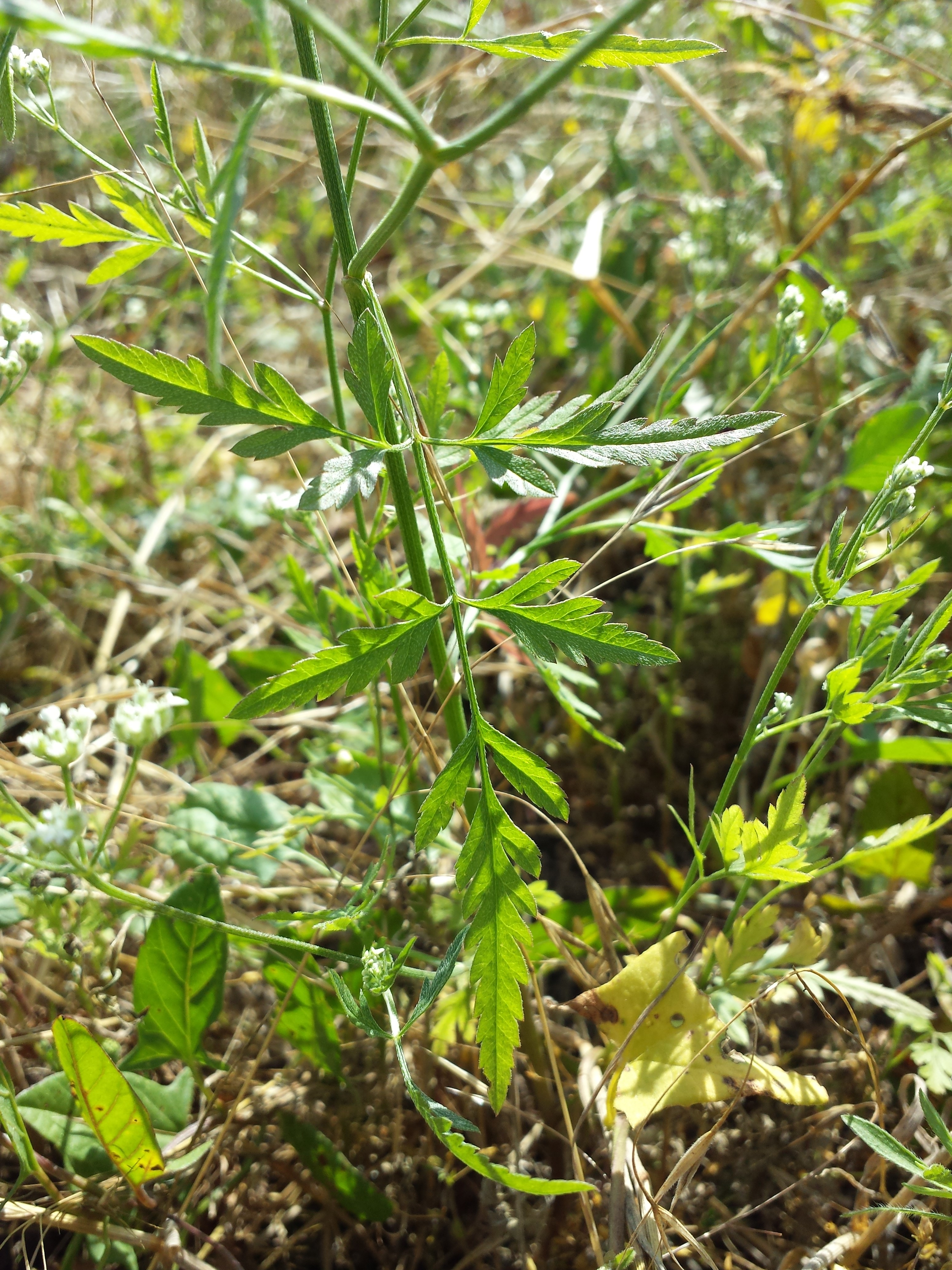 Leaf Taxon: Torilis arvensis (sensu Fischer et al. EfÖLS 2008 ISBN 978-3-85474-187-9) Location: near Alte Schanzen, Floridsdorf, Vienna - ca. 225 m a.s.l. Habitat: fallow land